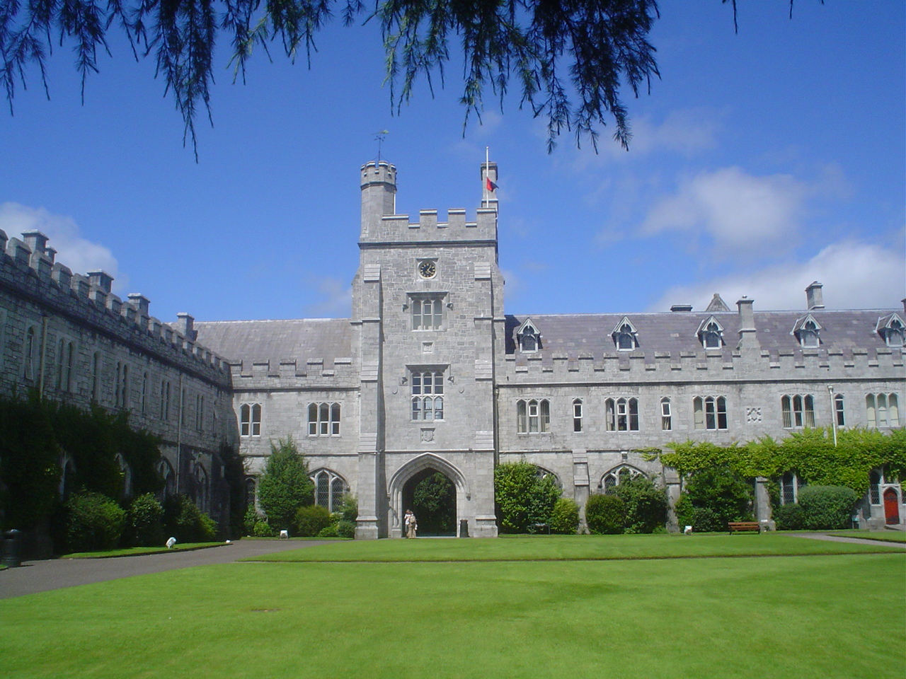 Cork - UCC buildings